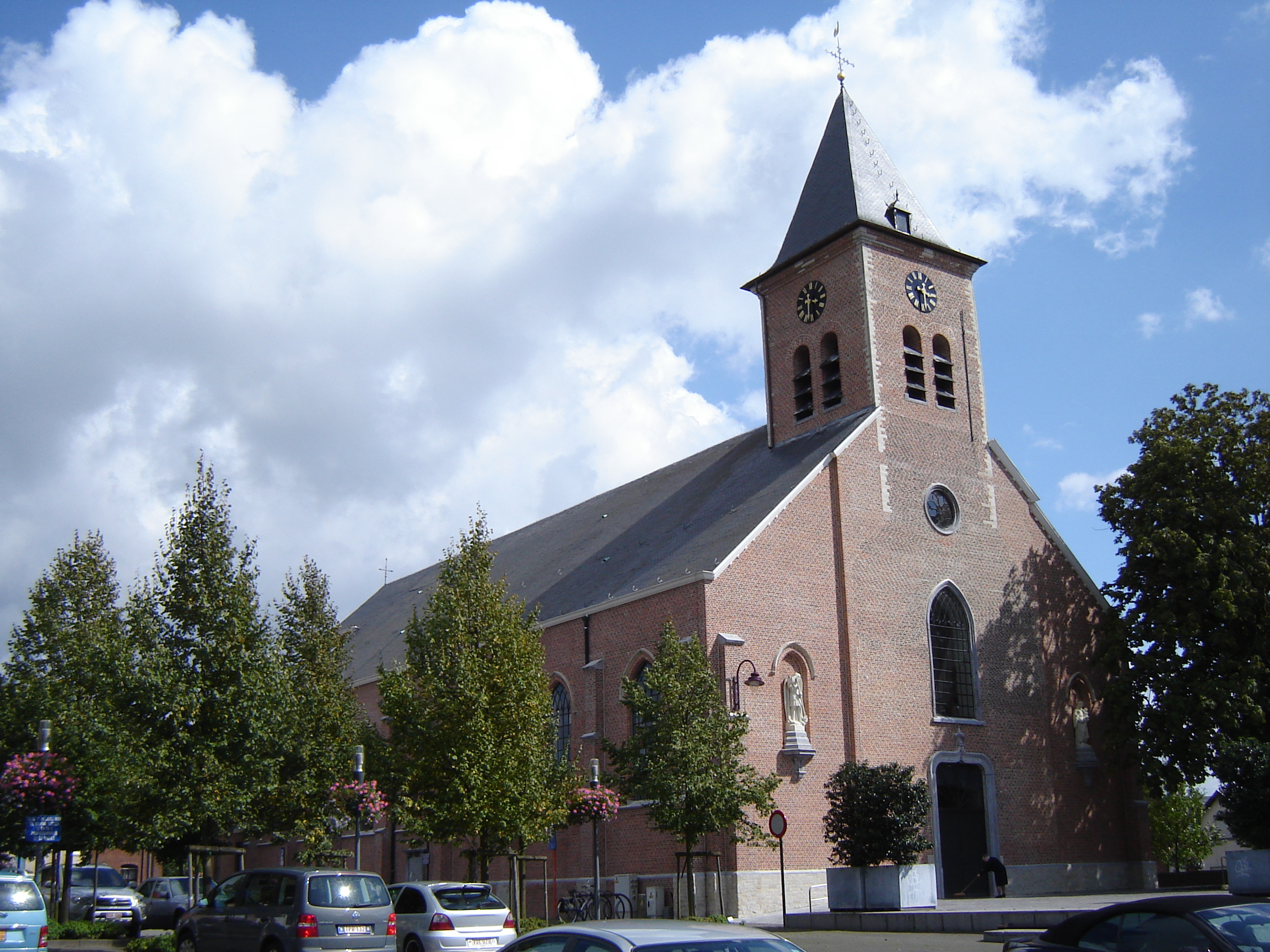 Church of Saint Michael in Kieldrecht. Kieldrecht, Beveren, East Flanders, Belgium